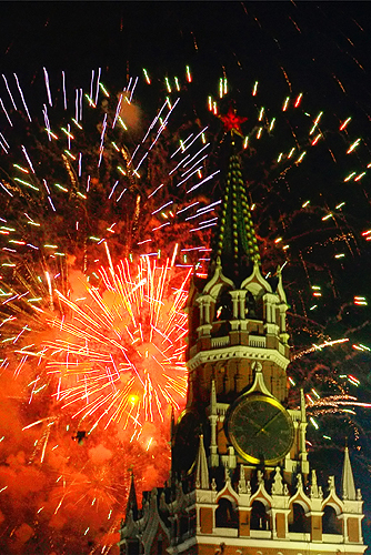 RED SQUARE, MOSCOW. Victory Day fireworks display.